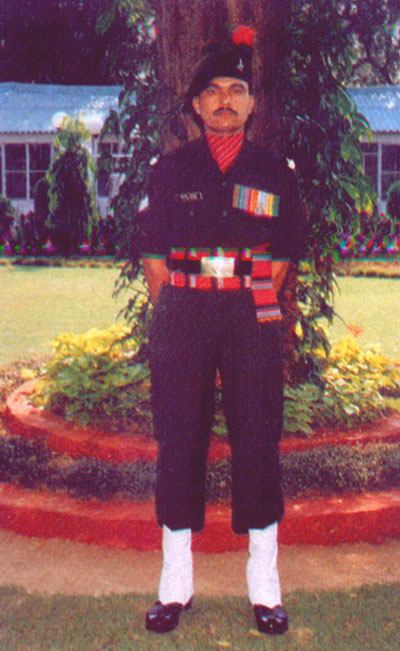 A Jawan of 14 MARATHA LI at Gwalior Cantonment.